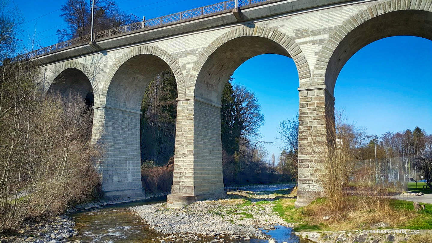 Goldach Viaduct